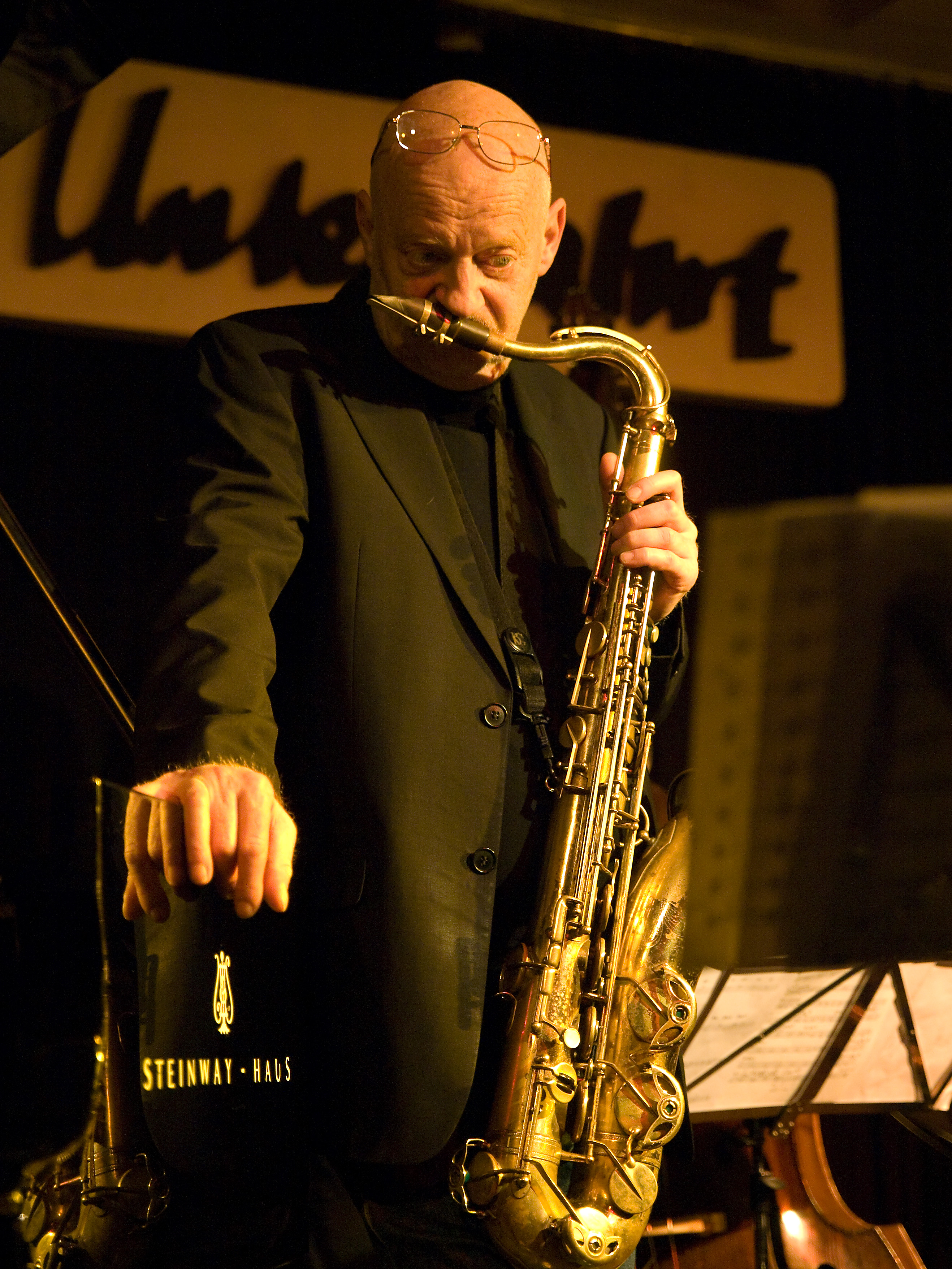 Andy Scherrer, double bass, picture taken in Jazz club "Unterfahrt" in Munich/Germany